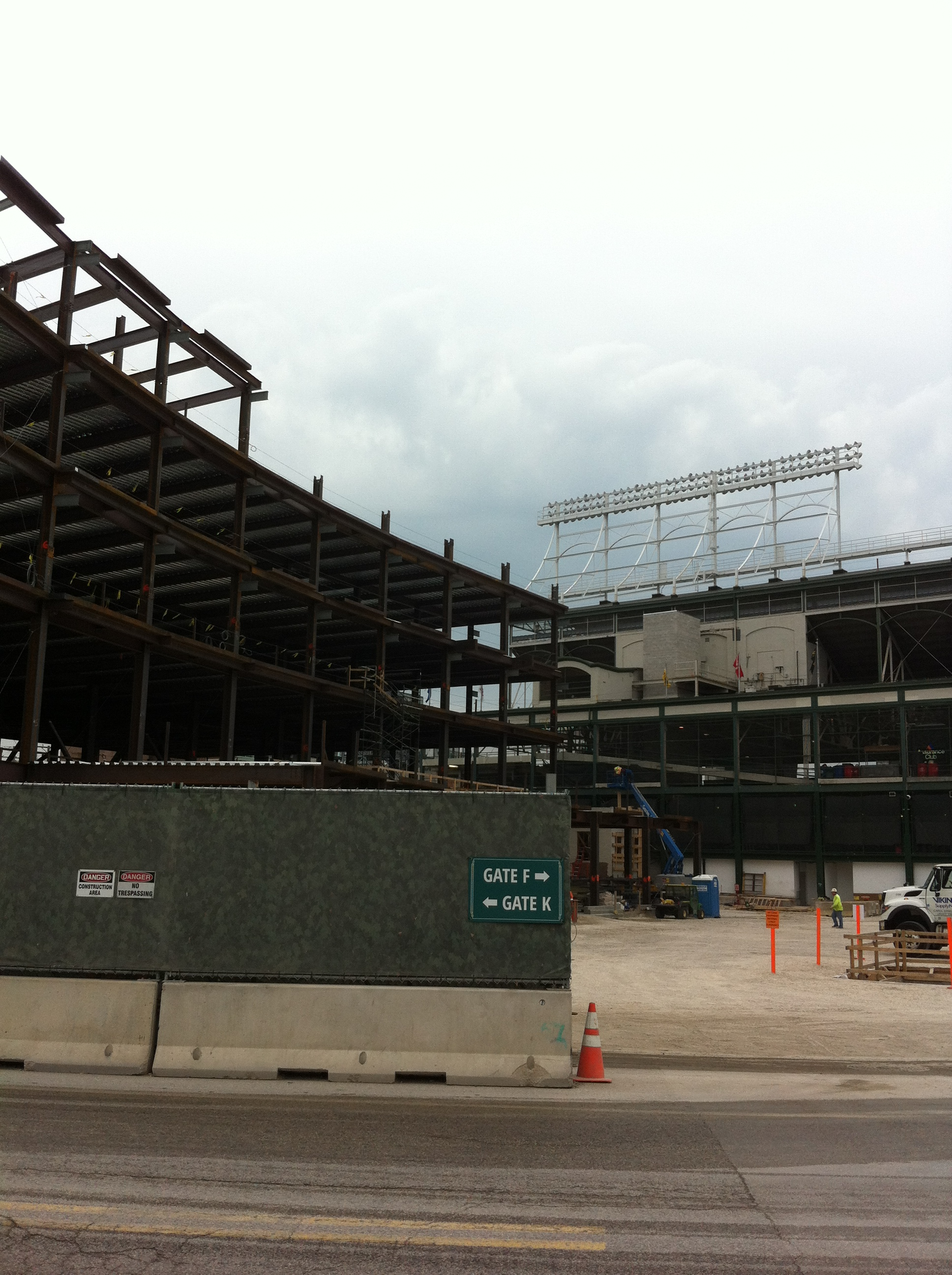 Triangle Plaza and Chicago Cubs Office Bldg under Construction